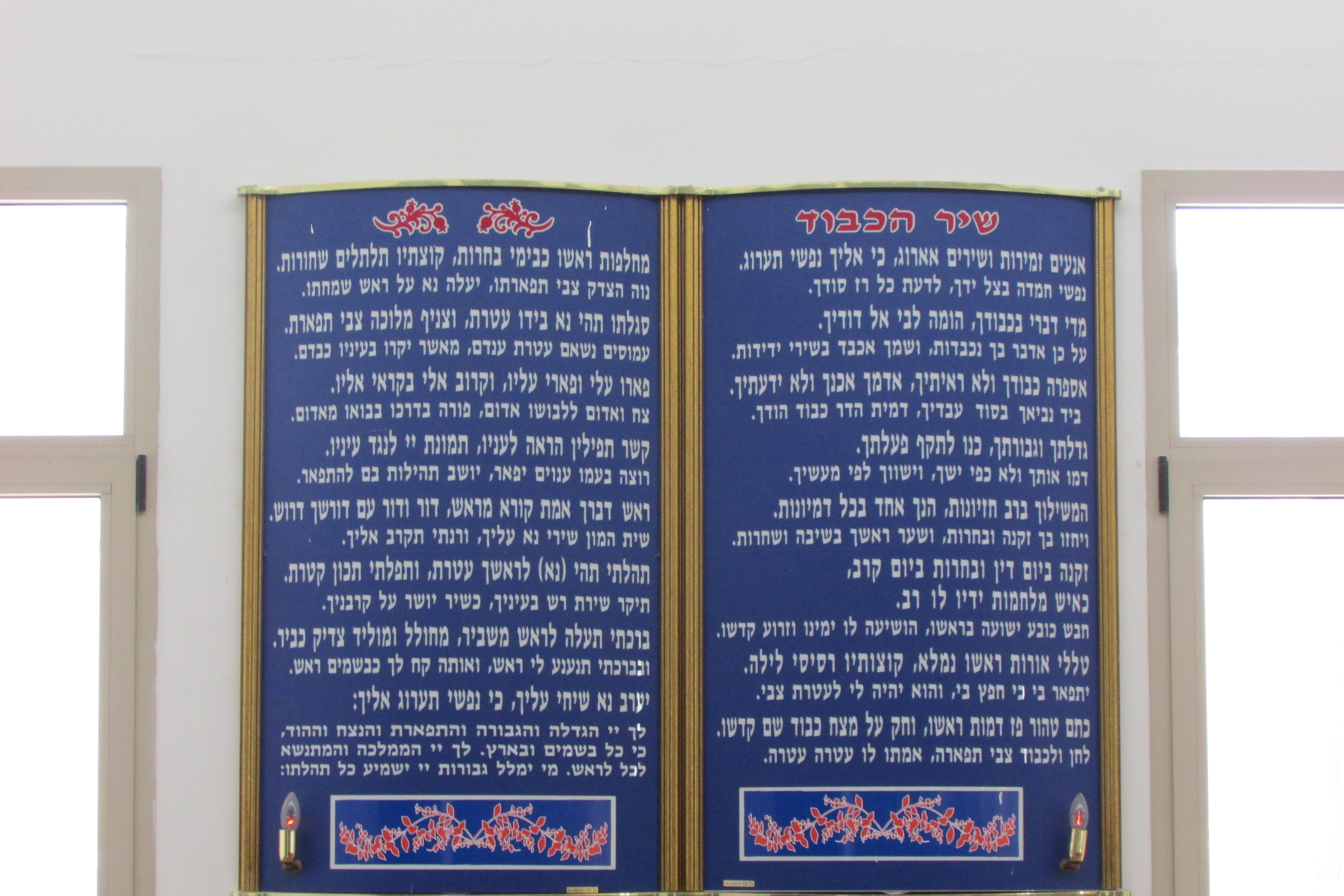 Synagogues in Lod